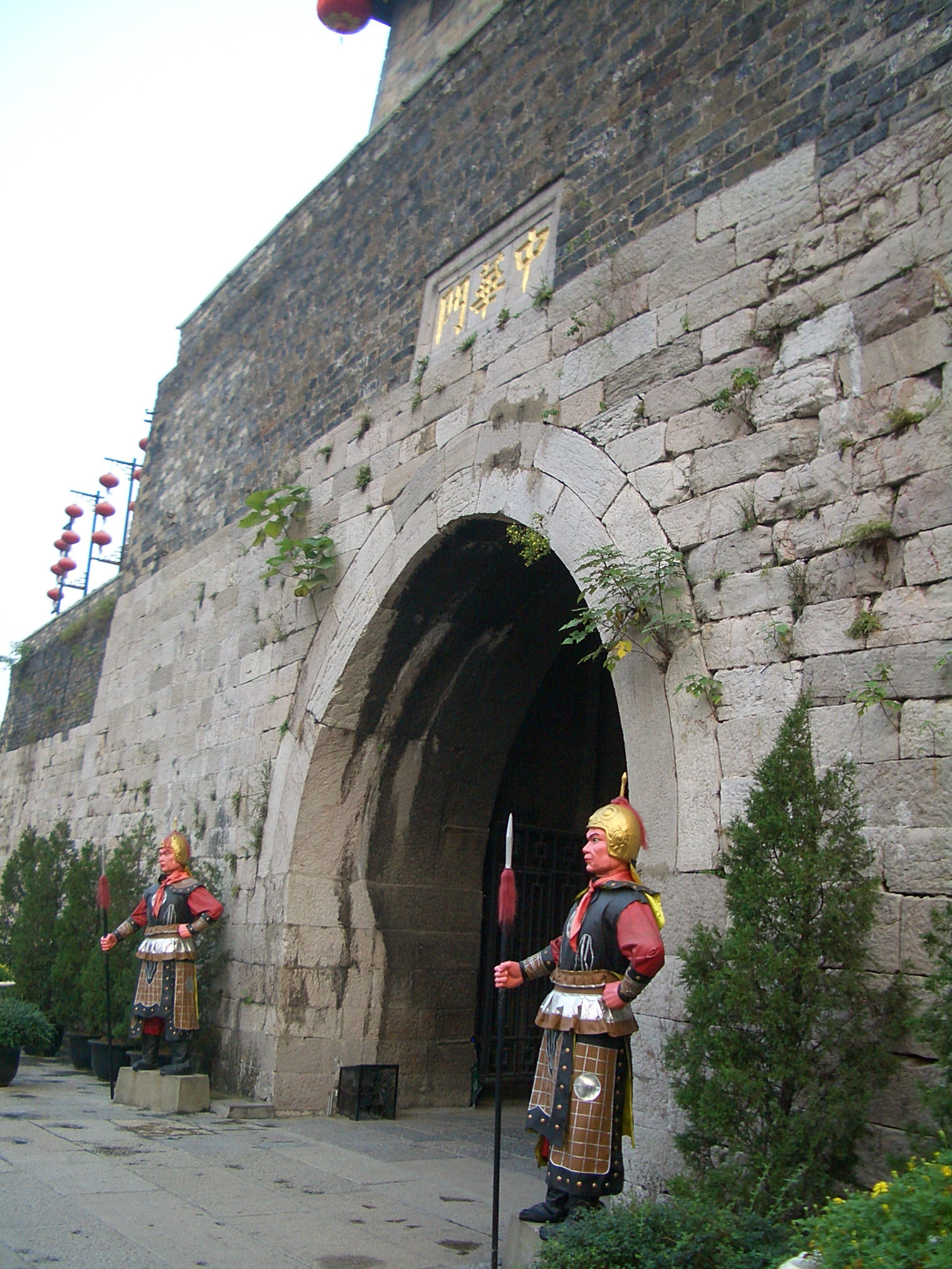 The Zhonghua Gate complex at the southern part of the City Wall of Nanjing. A few fake (cardboard/plywood) decorated pavilions have been put on top, presumably to reproduce the original appearance of the fortress.